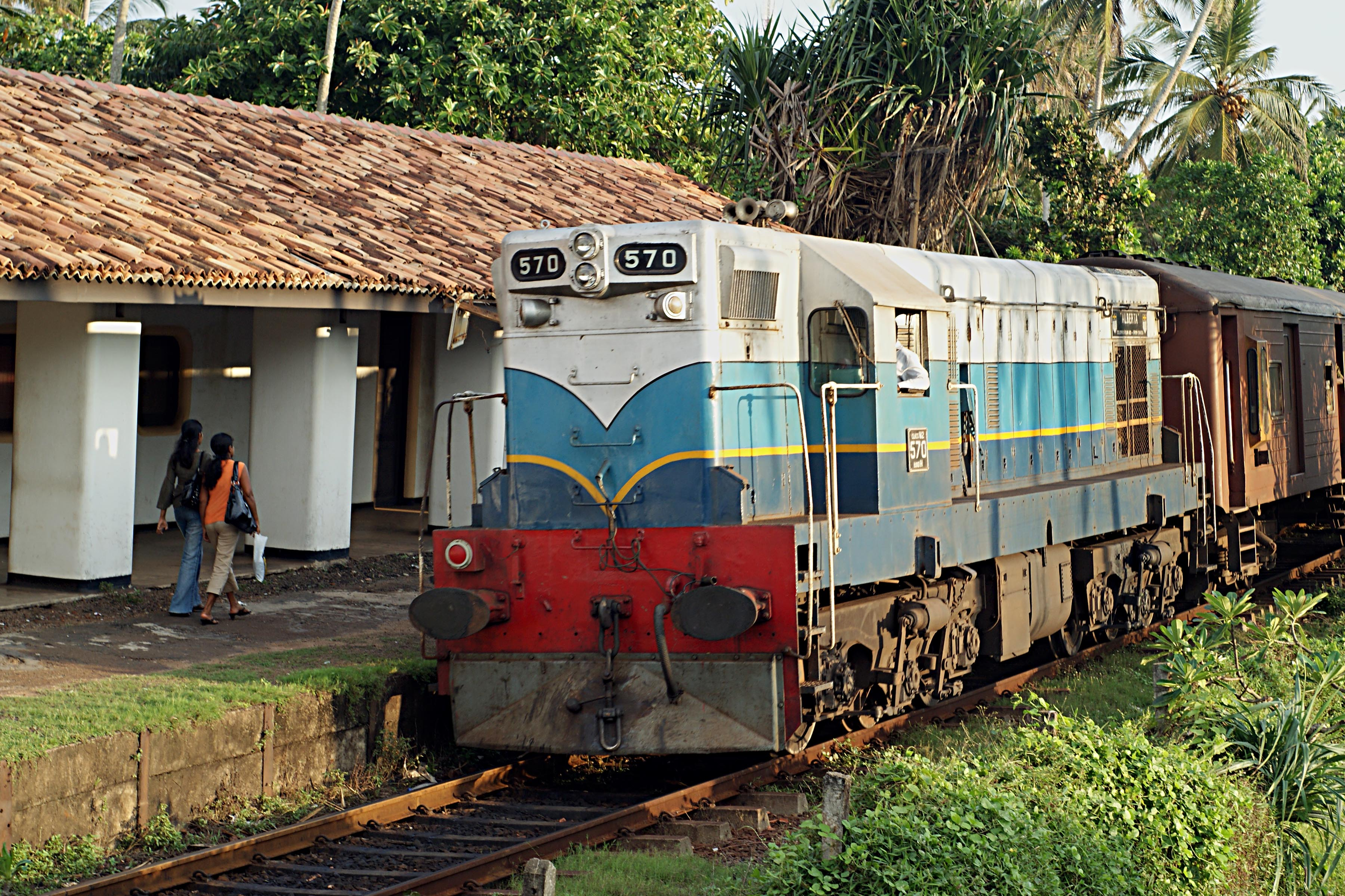 This Diesel electric locomotive manufactured by the then General Motors Diesel Division in London, Ontario, Canada was imported in 1954 with Canadian aid under the Colombo Plan. A total of 14 similar DE locomotives were delivered in several batches till 1966. They were powered by EMD 12-567C prime-movers. 12 of them were named after the 12 Canadian provinces and this Loco (No. 570) bears the name ALBERTA. Most of them are in active service even today. These are classified as Class M2 by the Sri Lankan Railways.